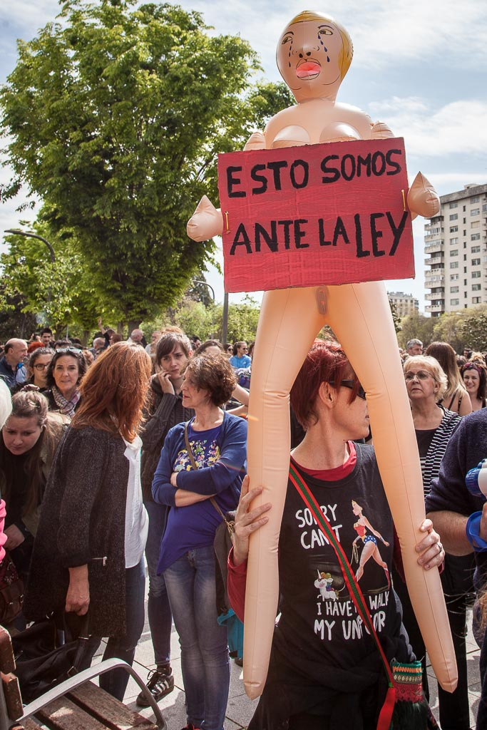 Outcry against the gang rape case sentence in Pamplona